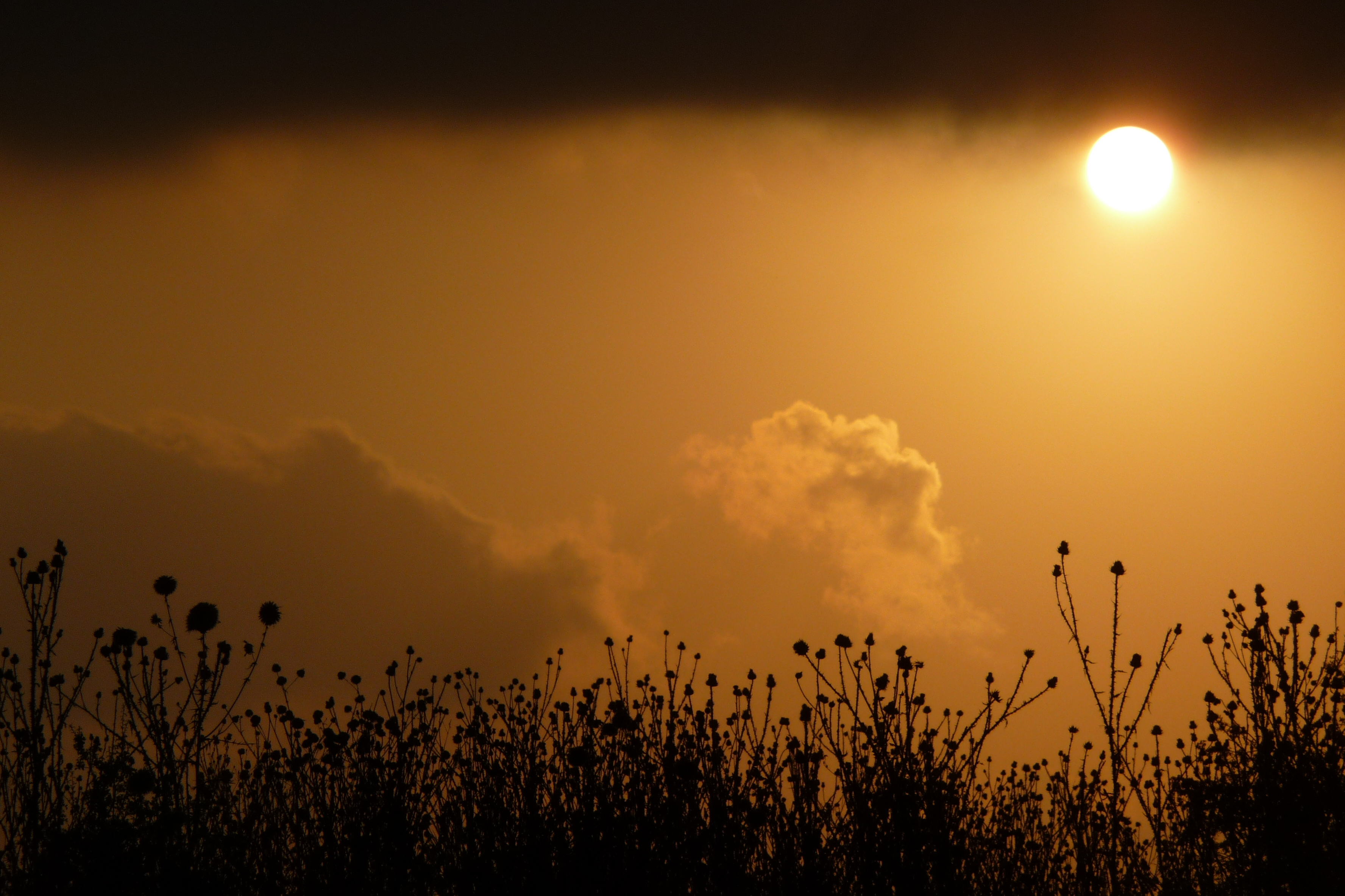 Mount Carmel